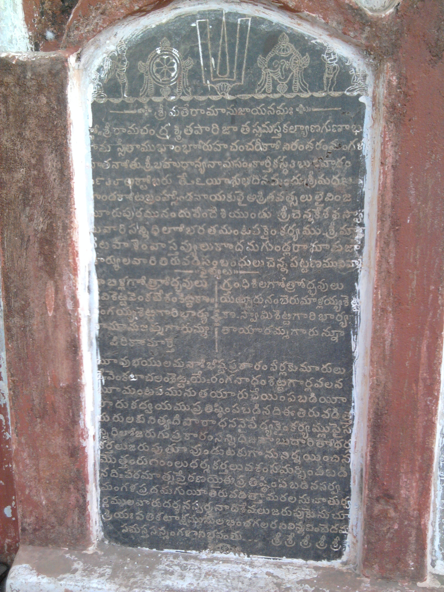 Sri Chennakesava Swami Temple, Vinjamur